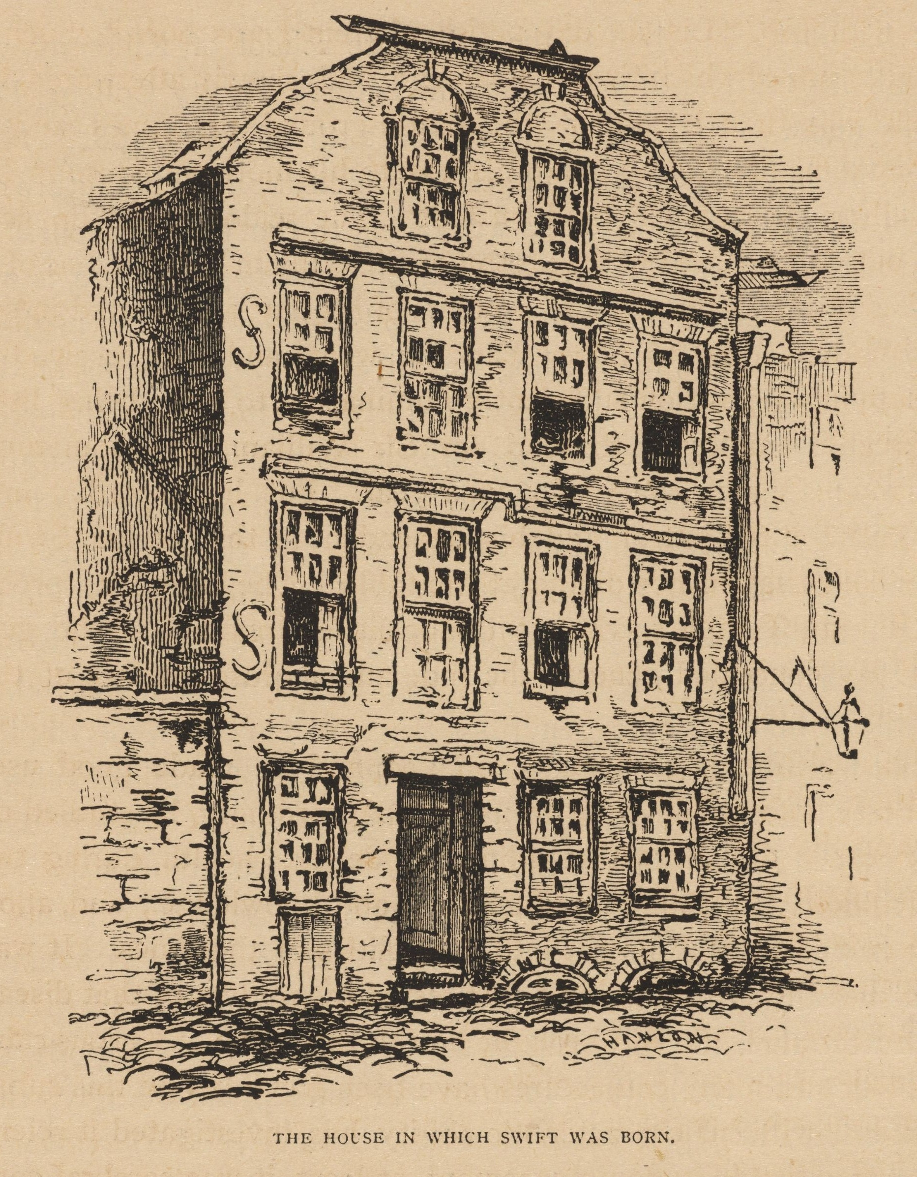 "The house in which Jonathan Swift was born", illustration from The Life of Jonathan Swift by John Francis Waller, 1865, illustrated by T. Morten. Lowell 1816.7.3, Houghton Library, Harvard University